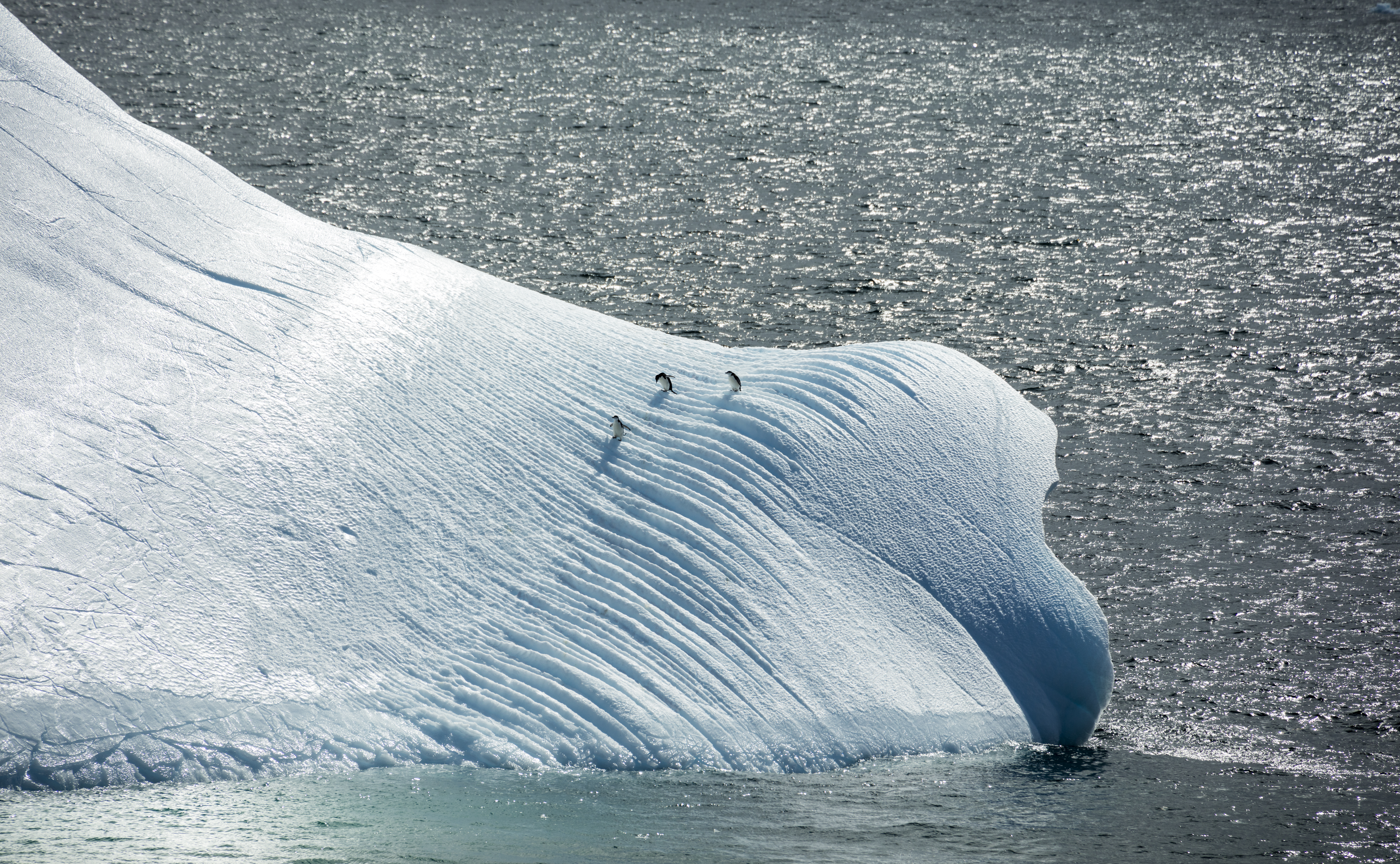 Chinstrap penguins (Pygoscelis antarctica), Deception Island, South Shetland Islands, on an iceberg.